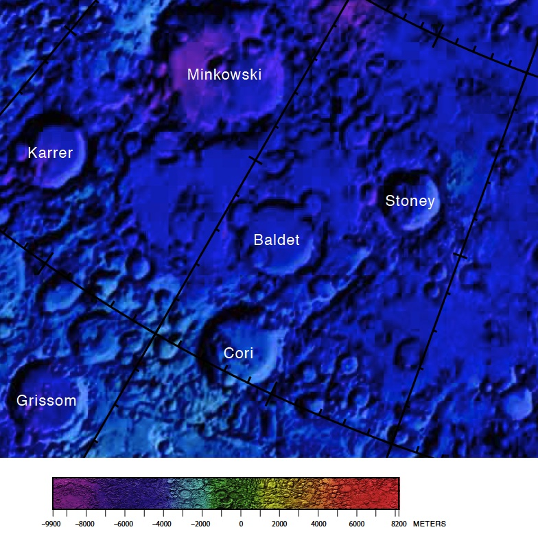 Part of the USGS Lunar South Pole area chart.